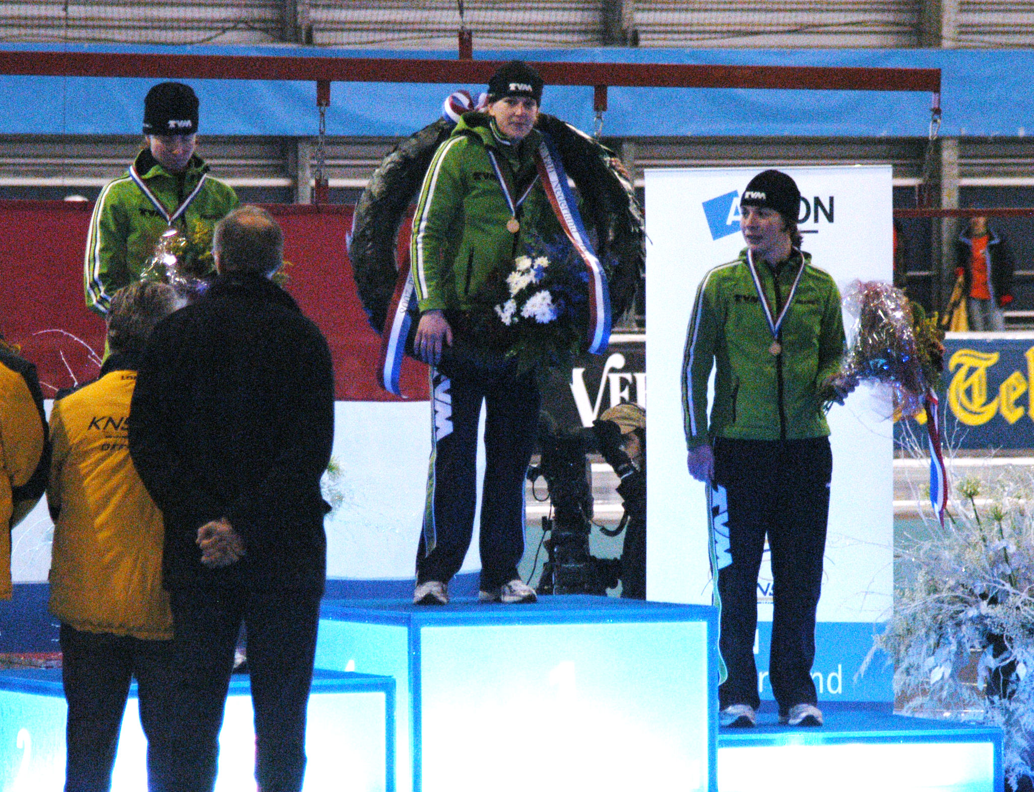 First three Dutch Championships Allround 2008 women. Left to right: Renate Groenewold (2nd), Ireen Wüst (1st) and Paulien van Deutekom (3rd).